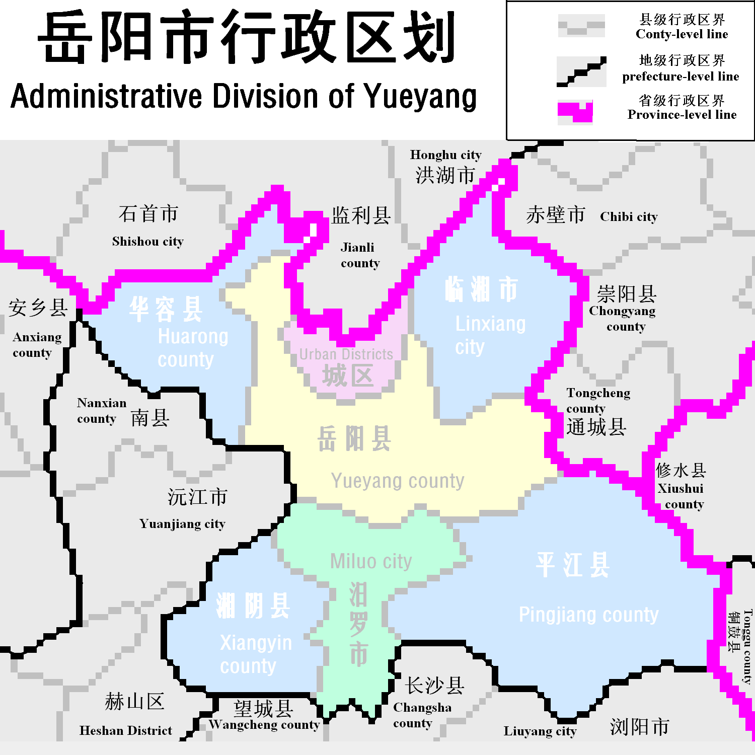 division of Yueyang；湖南省岳阳市行政区划